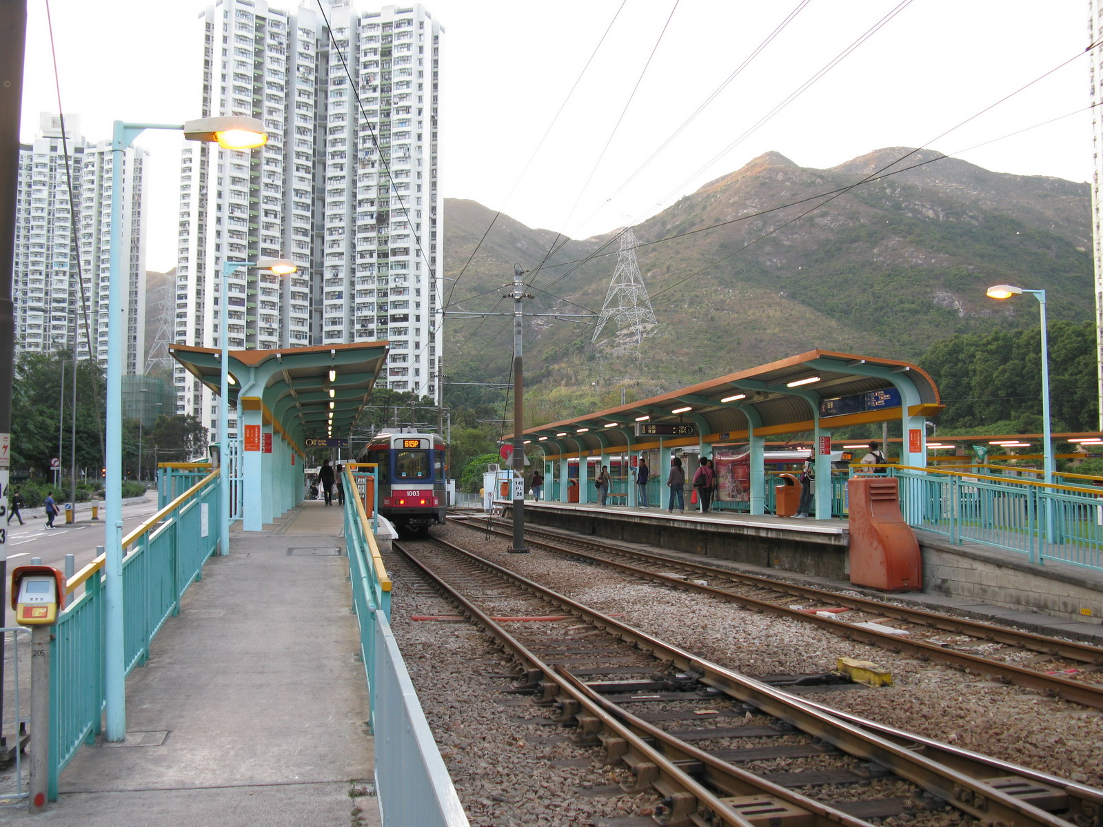 輕鐵 田景站 Tin King Stop, Light Rail